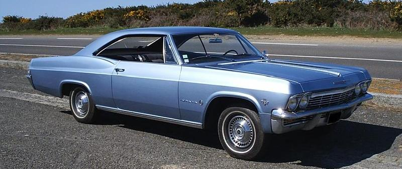 1965 Chevrolet Impala with a 300 hp V8 big Block Engine